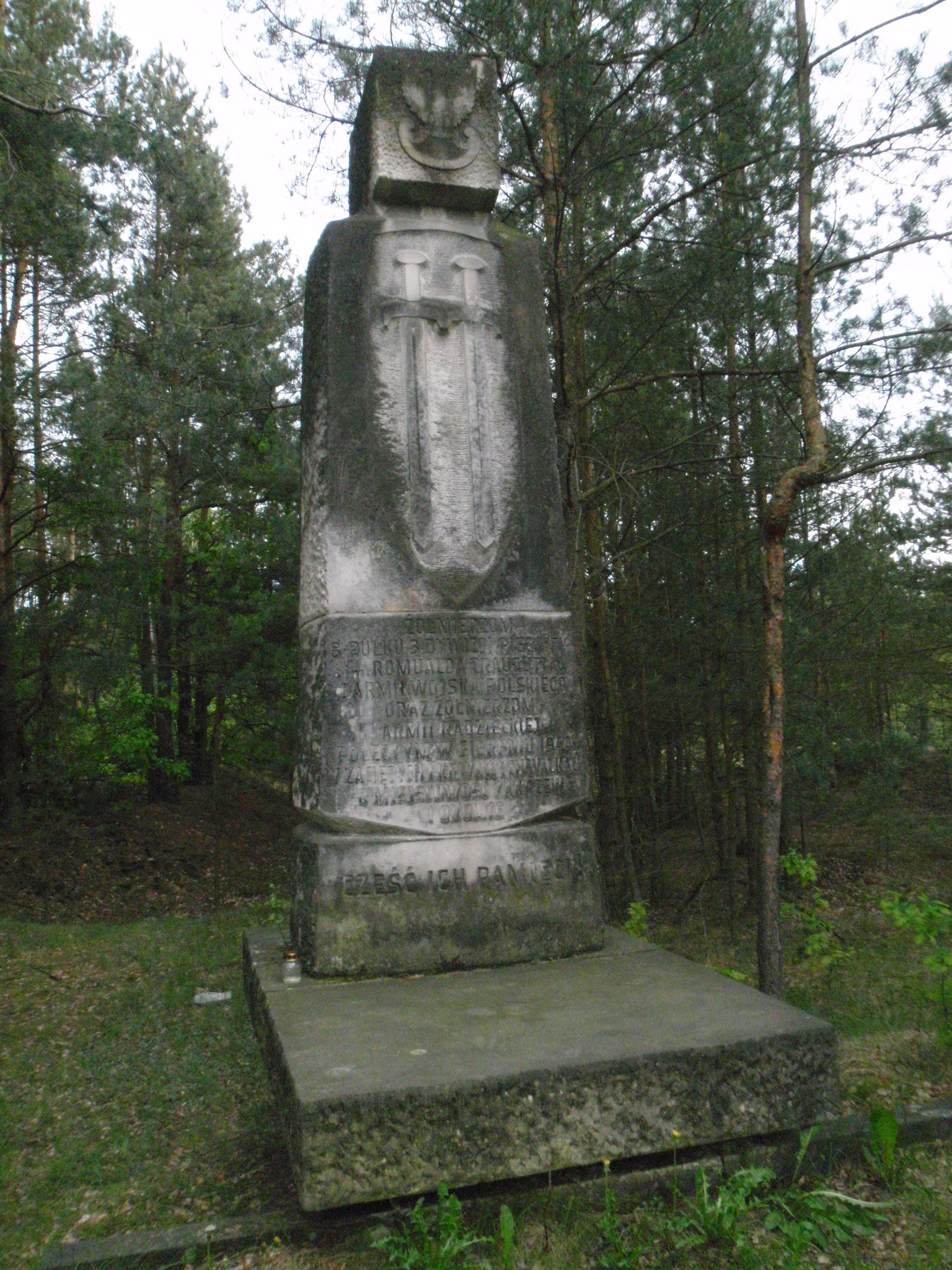 Monument in Zakrzew village commemorating fights of 8 regiment of 3 Infantary Division of R. Traugutt in 1944